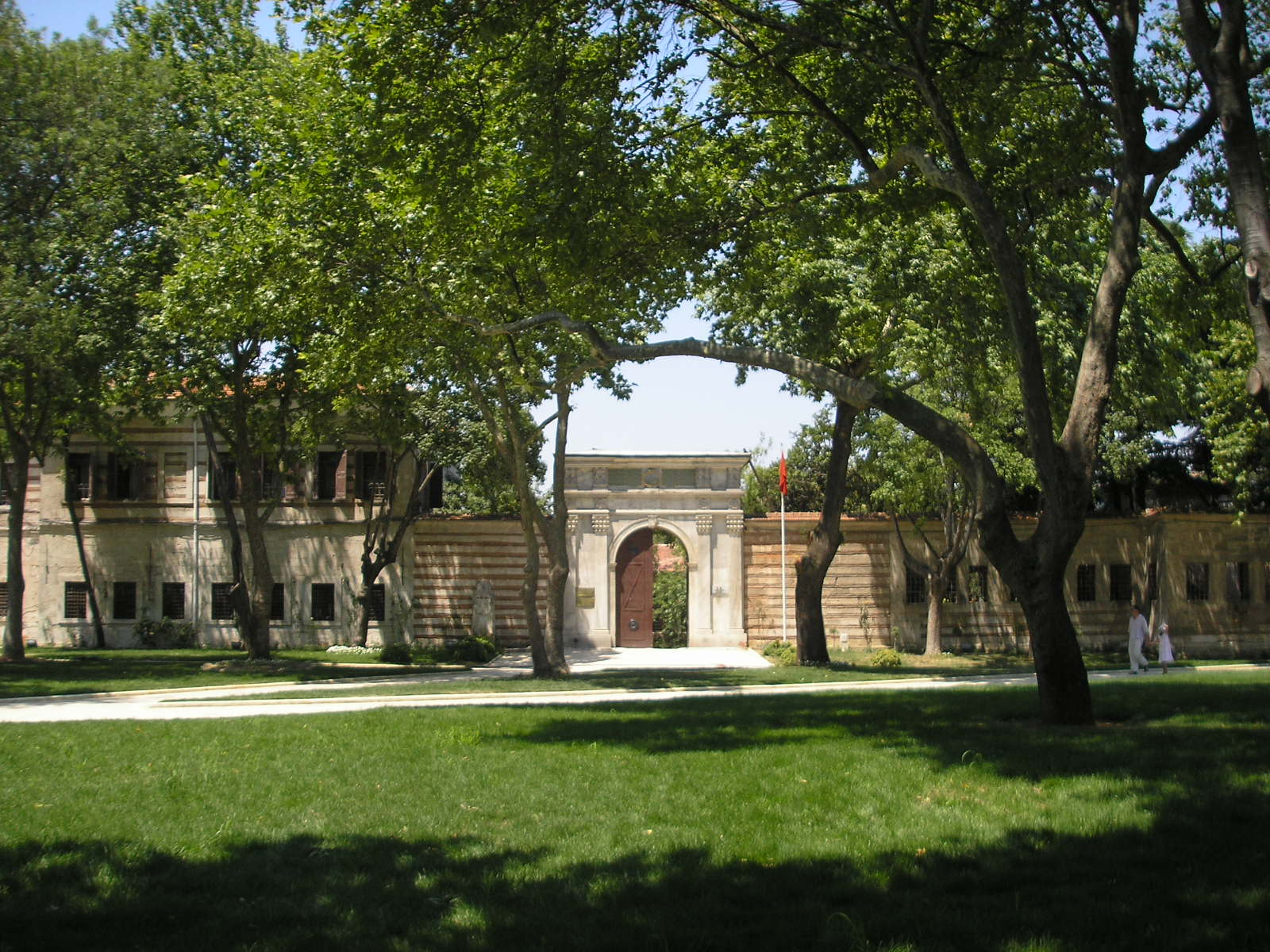 The old Imperial Mint (Darphane-i Âmire) located in the first courtyard of the Topkapi Palace in Istanbul.